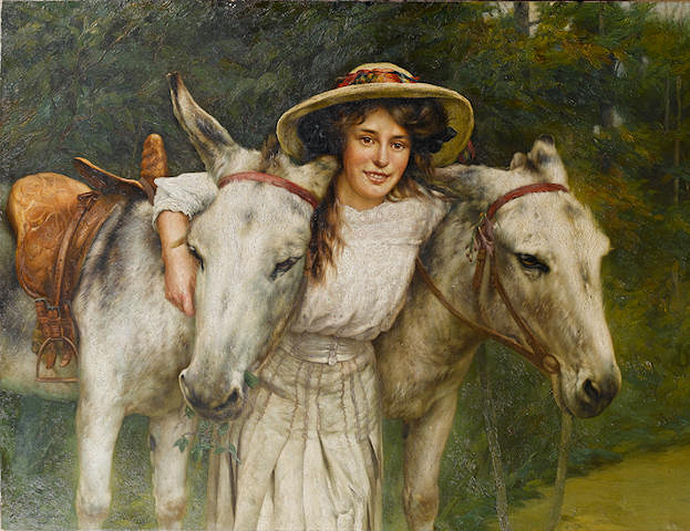 Friendship